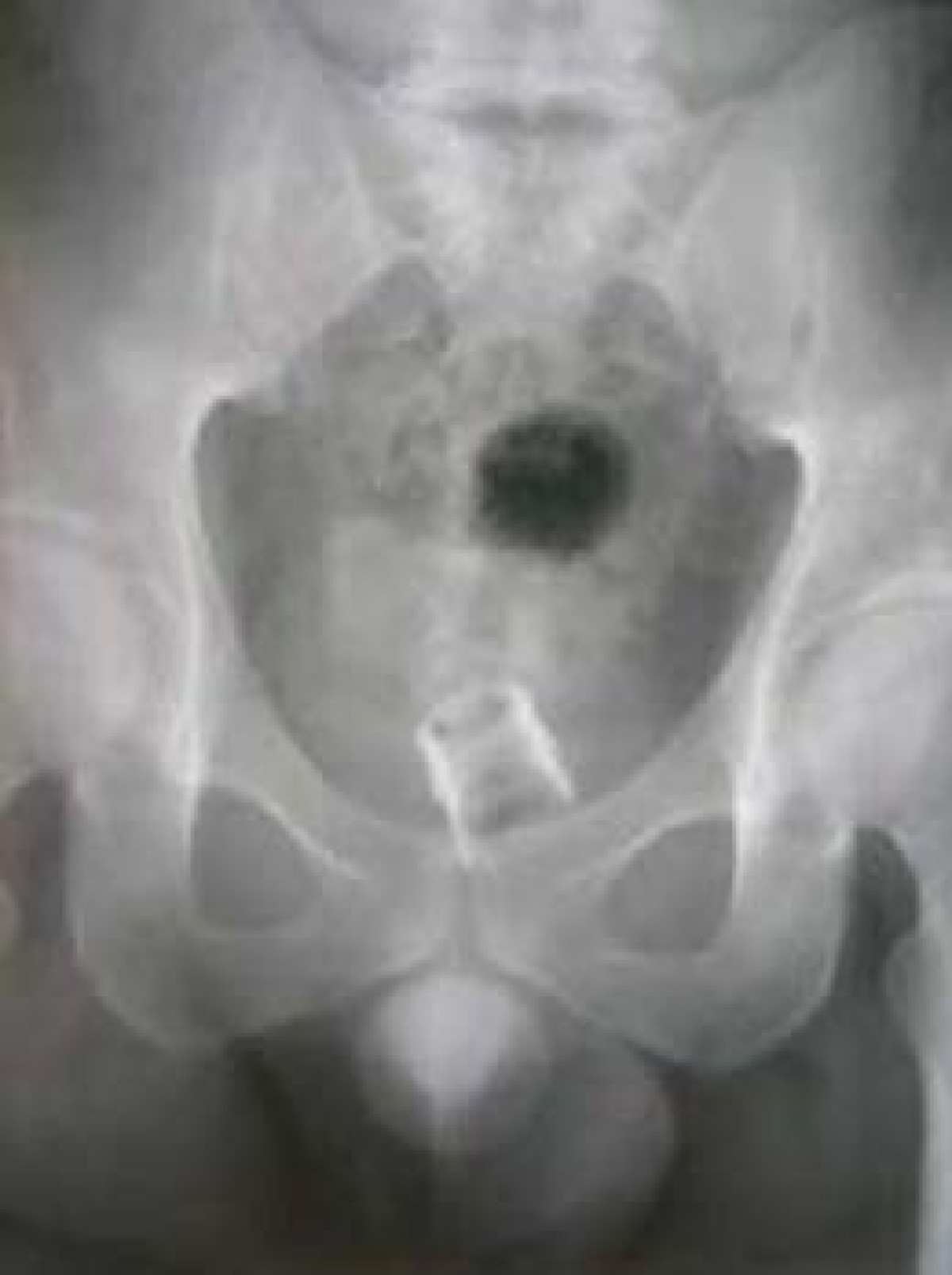 Plain X – Ray showing bottle fragment in situ.